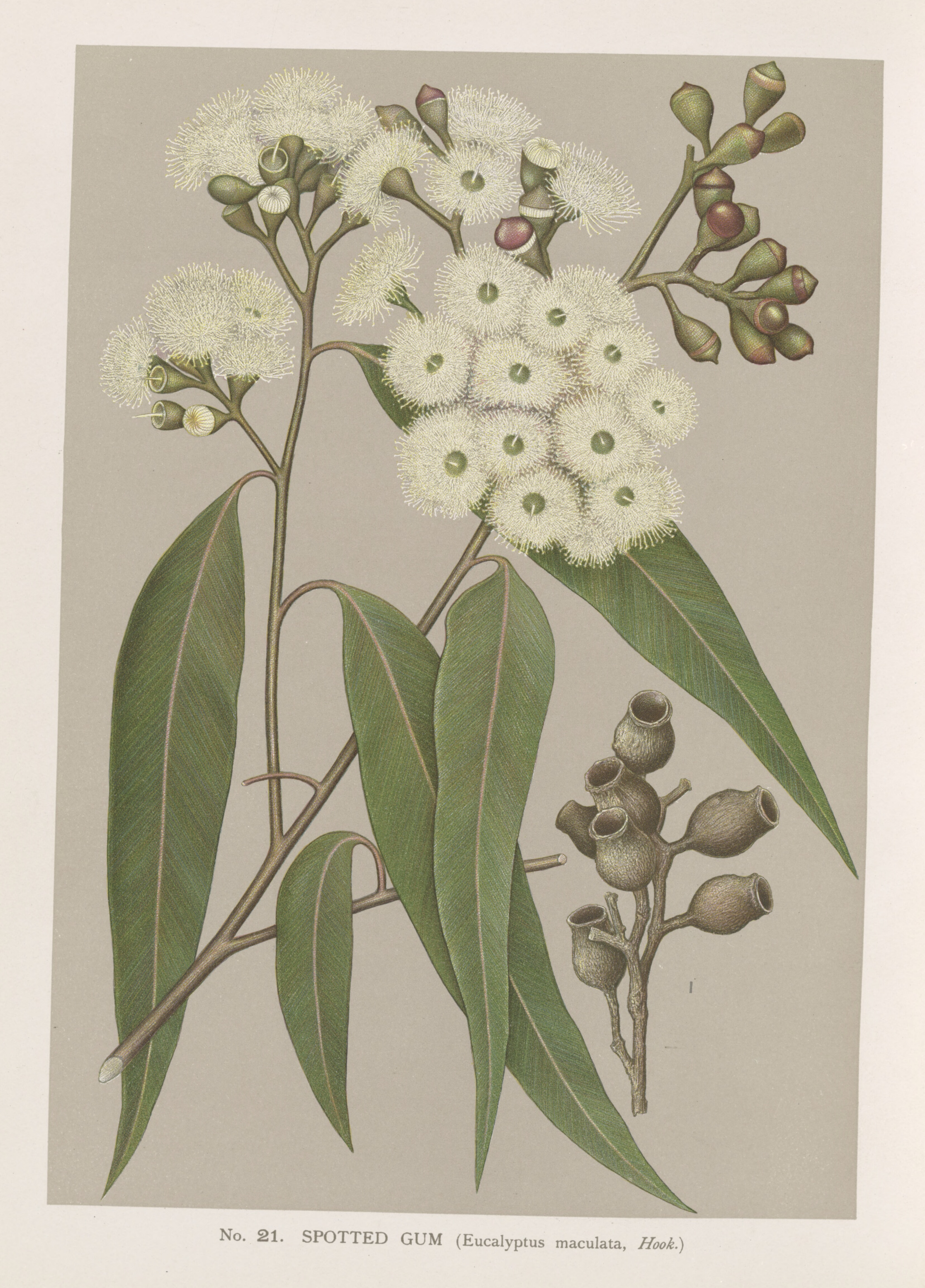 Corymbia maculata (published as Eucalyptus maculata)